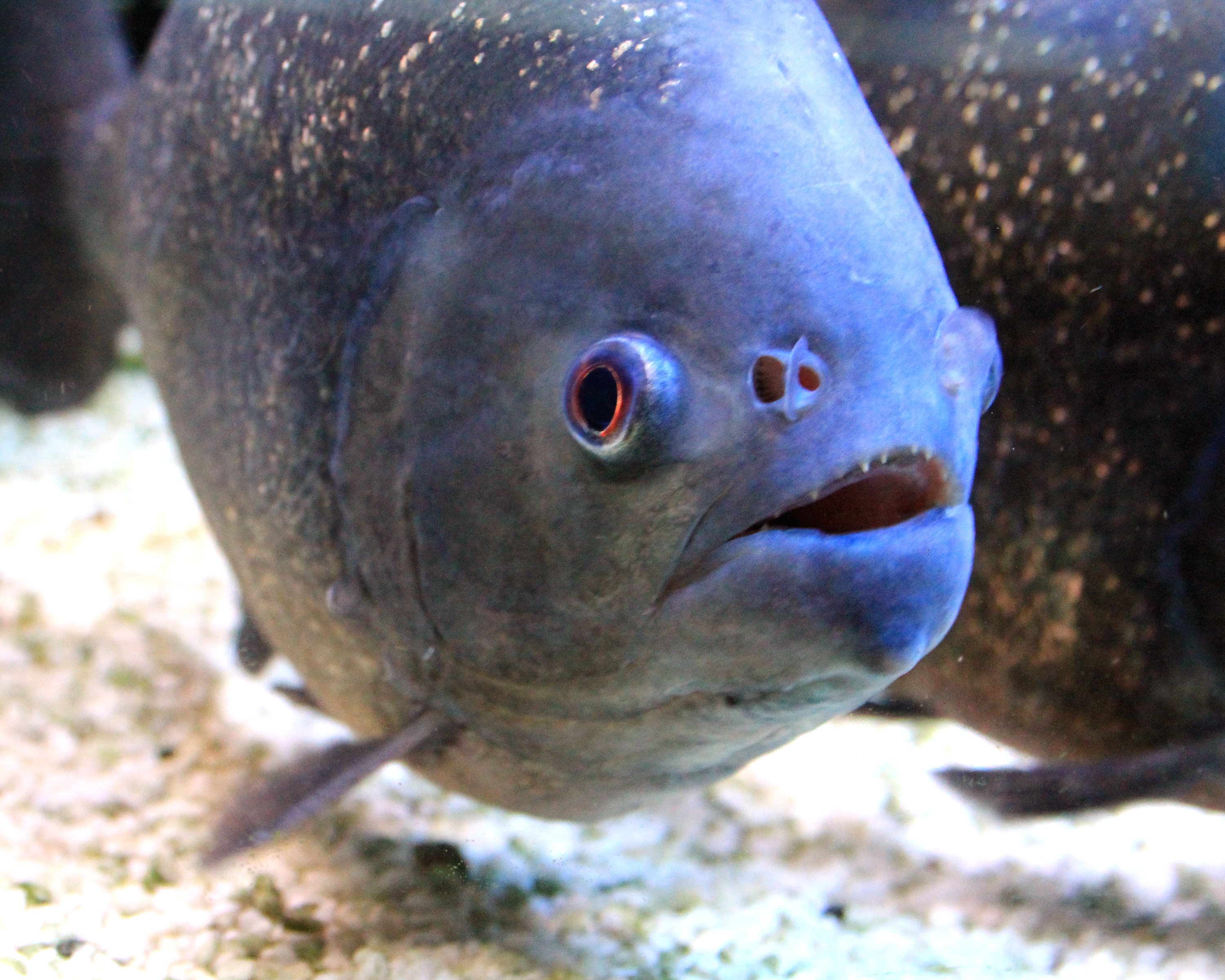 Fish Red-bellied piranha Pygocentrus nattereri in Prague sea aquarium, Czech Republic Česky: Ryba piraňa obecná (Pygocentrus nattereri) v pražském mořském akváriu Mořský svět v Holešovicích